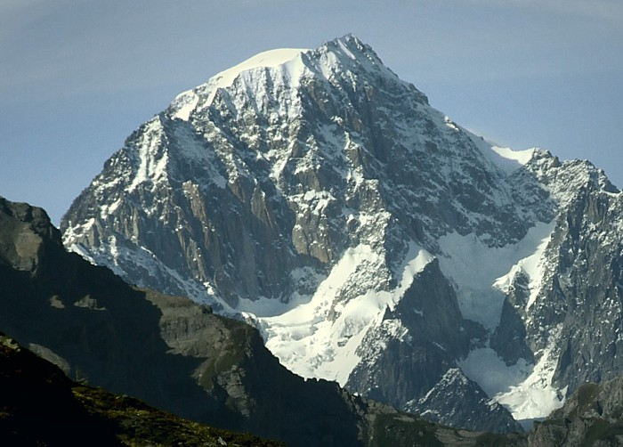 Mont Blanc de Courmayeur (4765 m) seen from La Thuile (I) Picture taken and edited by user Idefix august 2006